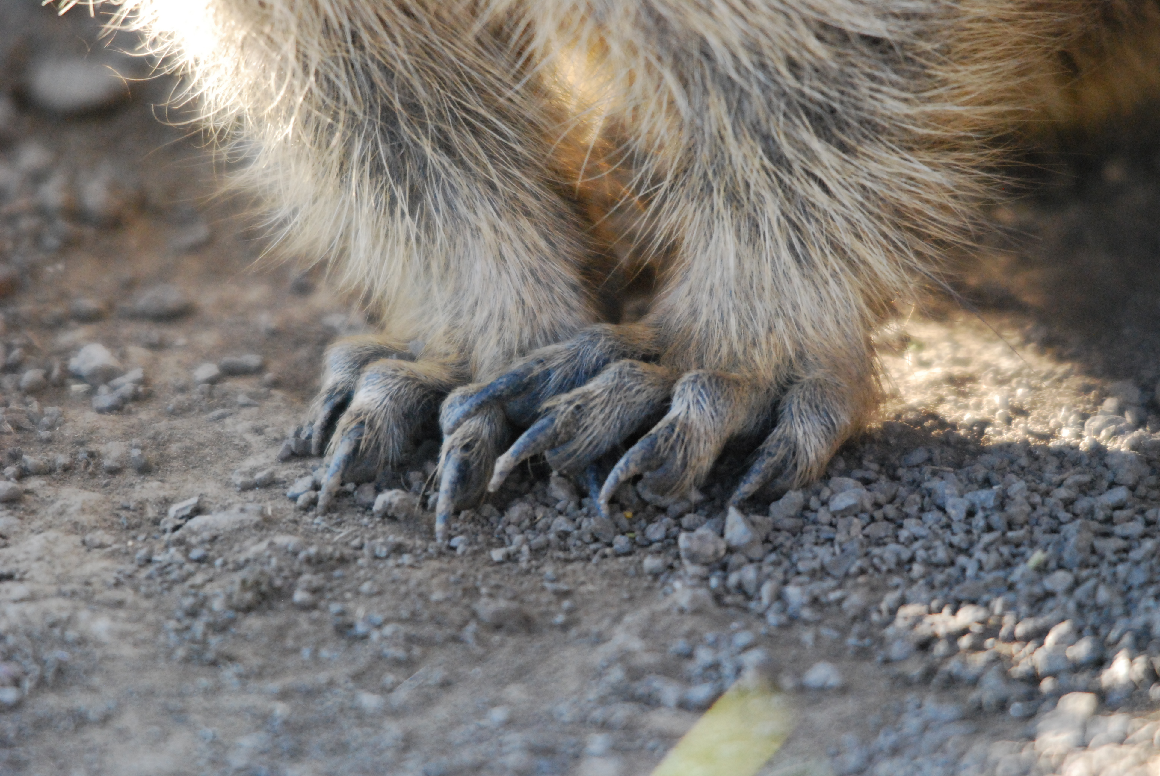 Marmota